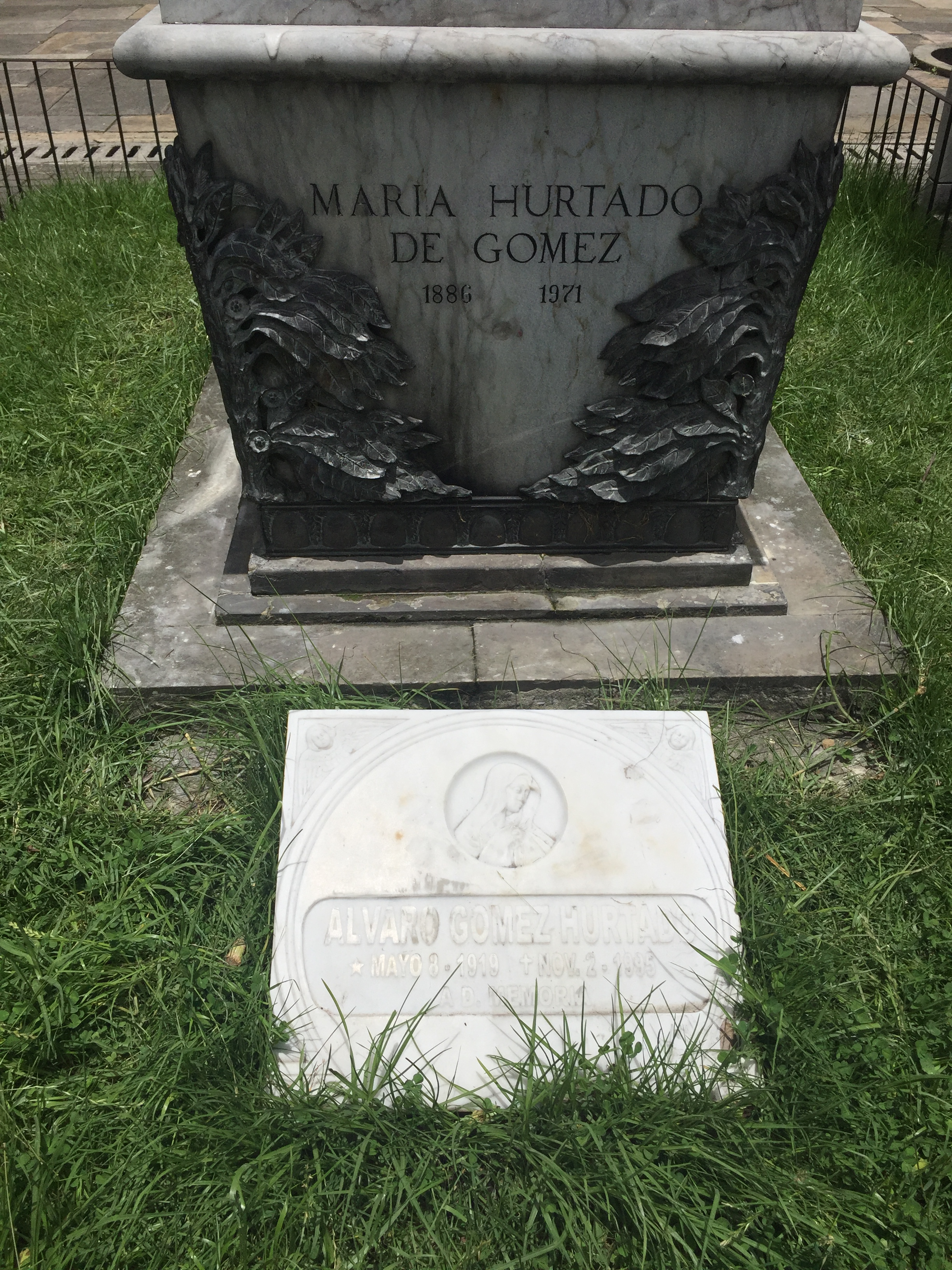 Grave of Alvaro Gomez Hurtado